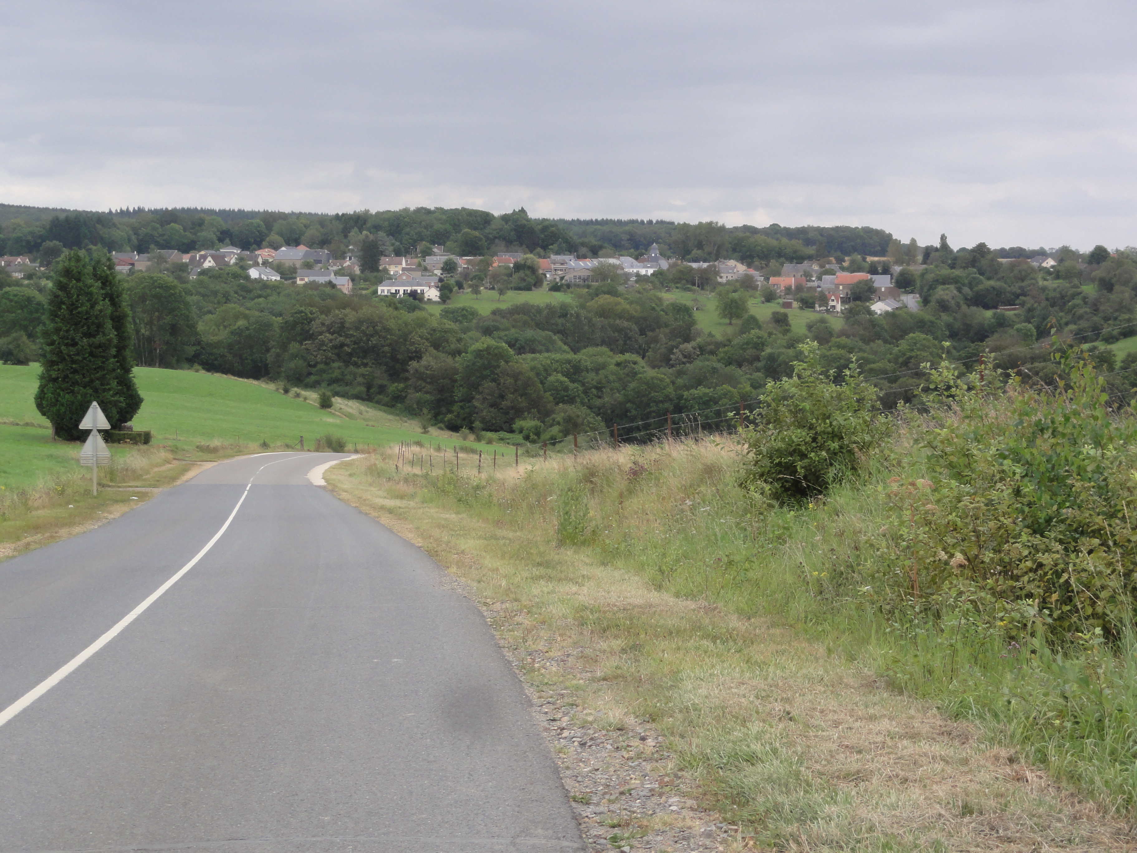 Arreux (Ardennes) le village vue de l'ouest